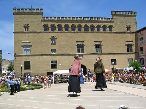 The 6th meeting of the Giants of Aragon, Spain. Gigantes y cabezudos